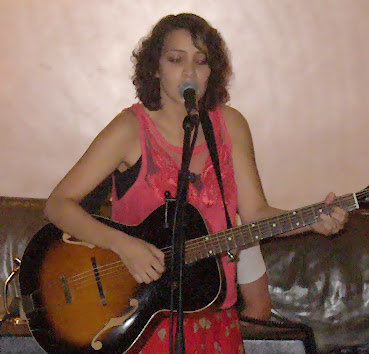 Gaby Moreno at concert Karlsruhe June 2012